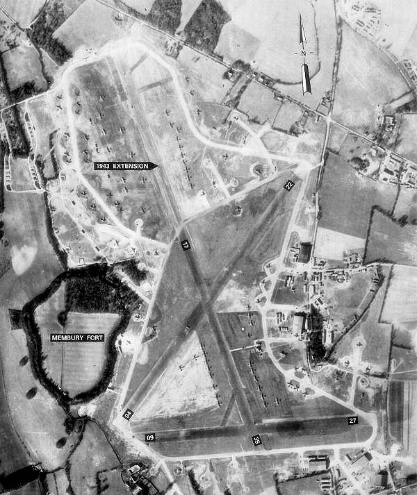 Aerial photograph of Membury Airfield, England.